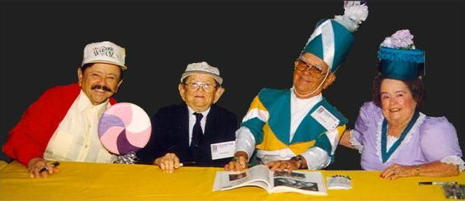 Jerry Maren (Lollipop Guild), Karl Slover, Clarence Swenson, Margaret Pellegrini. Orlando, Florida